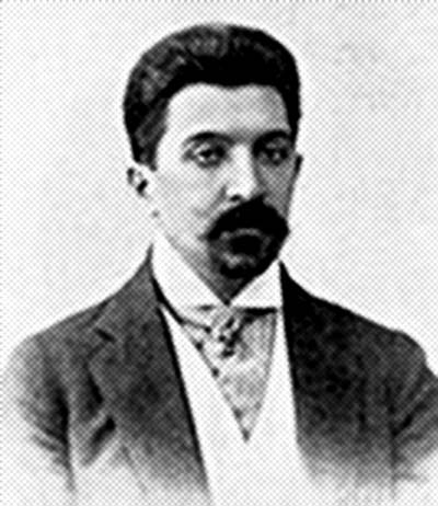 Stepan Lianosov